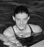 Faith Leech at the 1956 Summer Olympics